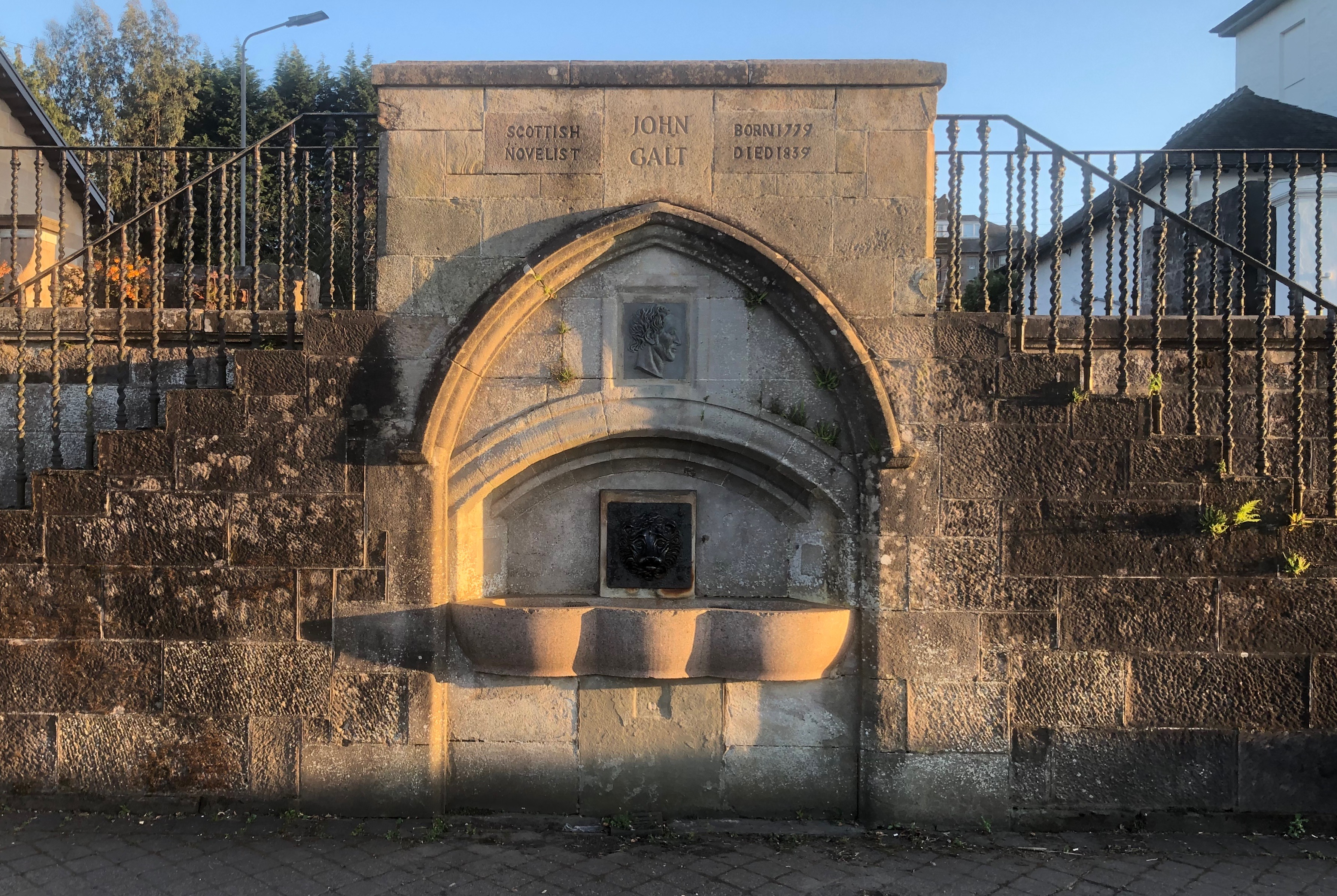 Memorial fountain at the Esplanade, Greenock, commemorating John Galt, novelist and founder of the city of Guelph in Canada, who was associated with Greenock in his early years, began his career there, and retired there.